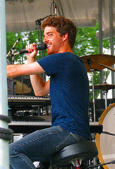 Ben Thornewell of Jukebox The Ghost on keyboards at the Appel Farm Arts and Music Festival, June 2012. Photo by L H Collins.